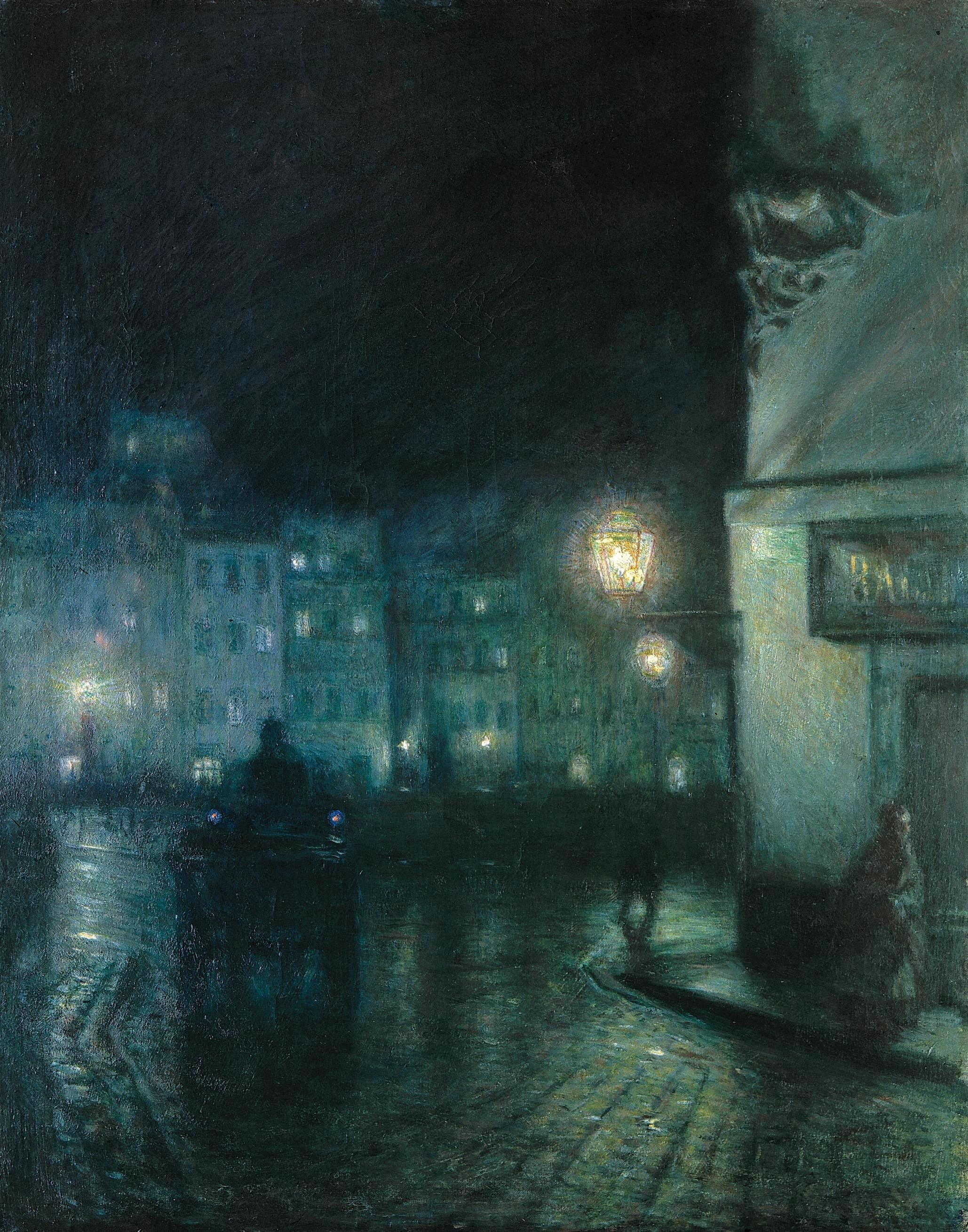 Market Square of Warsaw by night